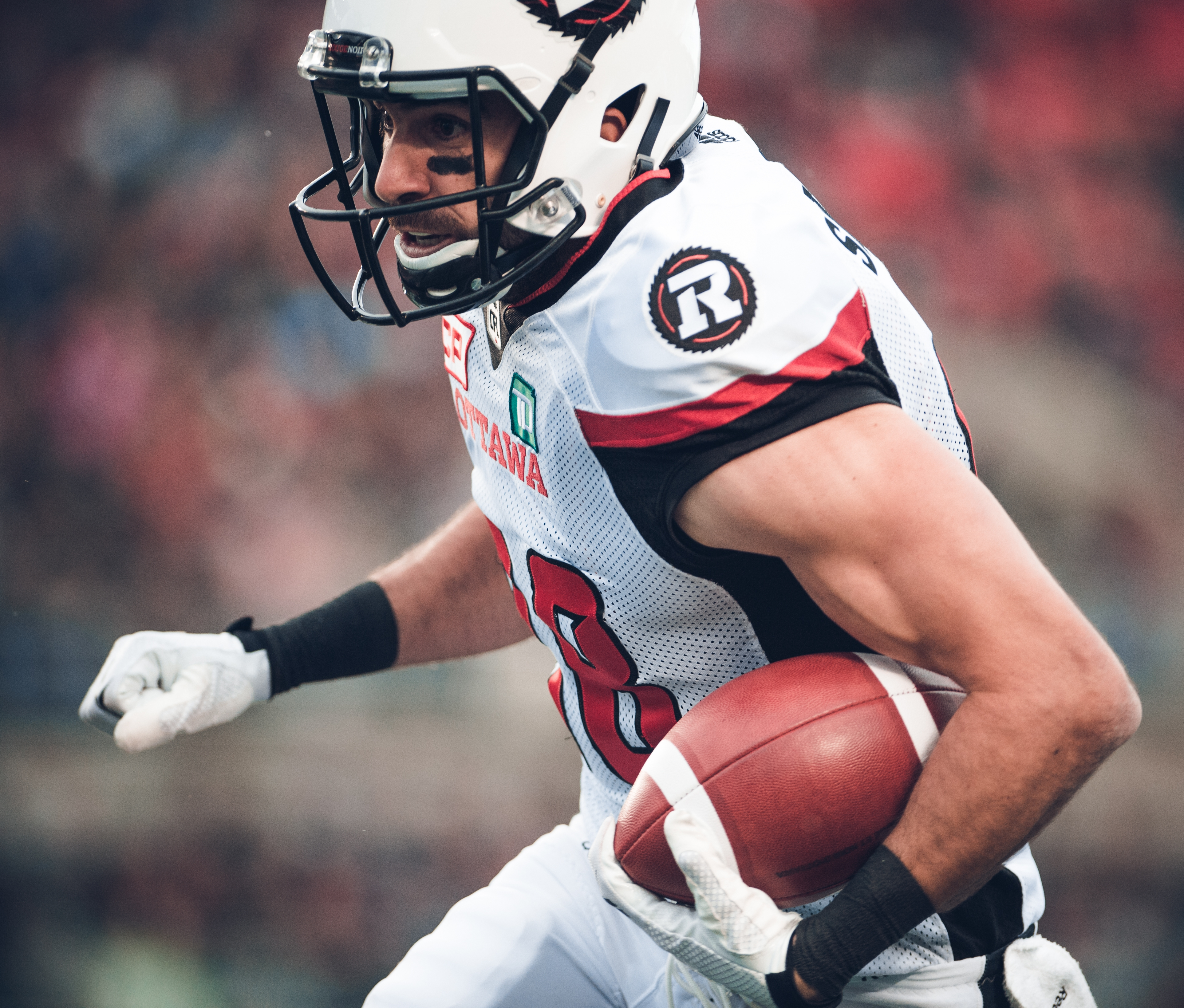 Brad Sinopoli (88) of the Ottawa REDBLACKS during the pre-season game against the Winnipeg Blue Bombers at TD Place in Ottawa, ON on Monday June 13, 2016. (Photo: Johany Jutras)